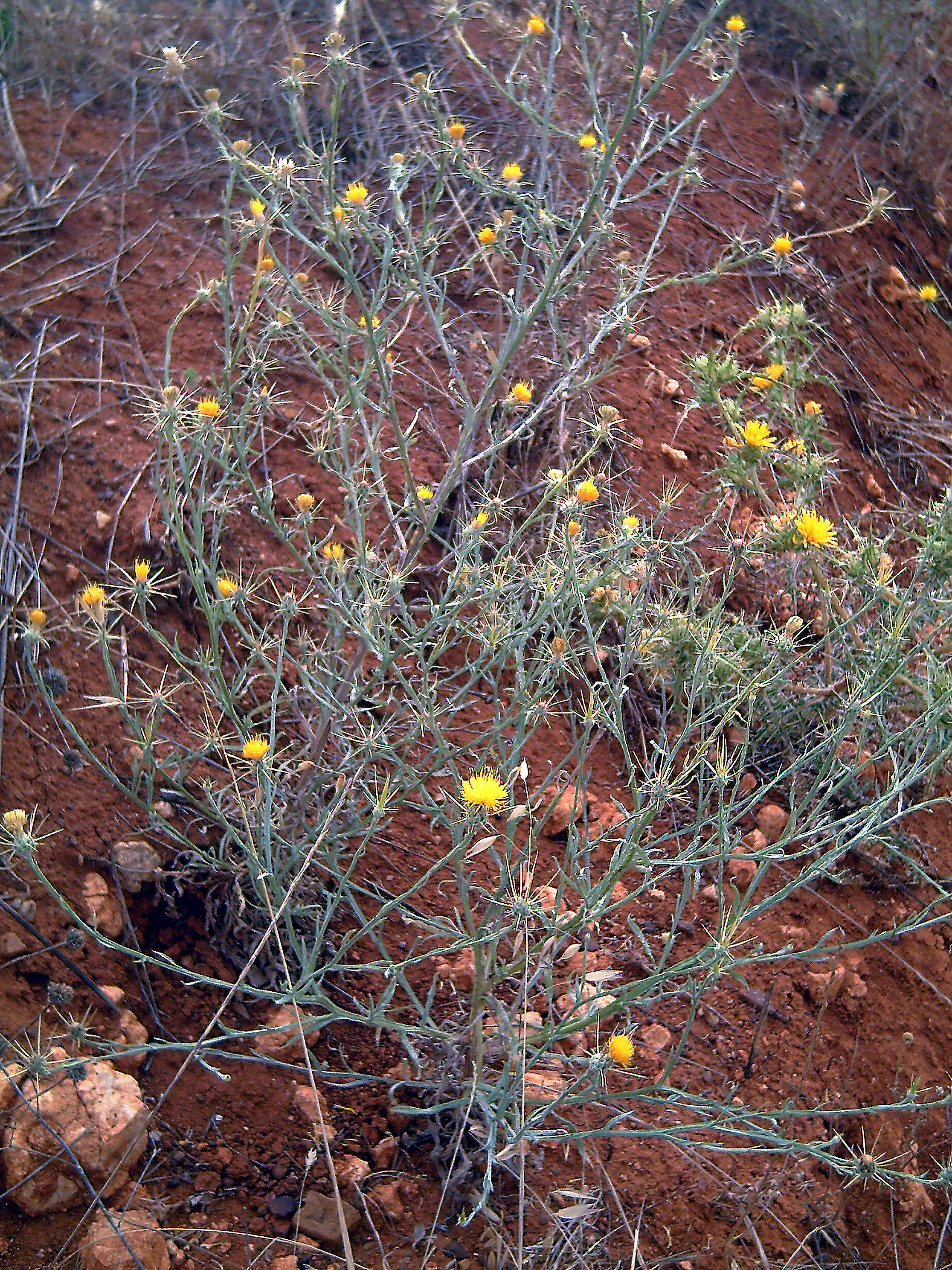 Centaurea solstitialis habitus, Campo de Calatrava, Spain